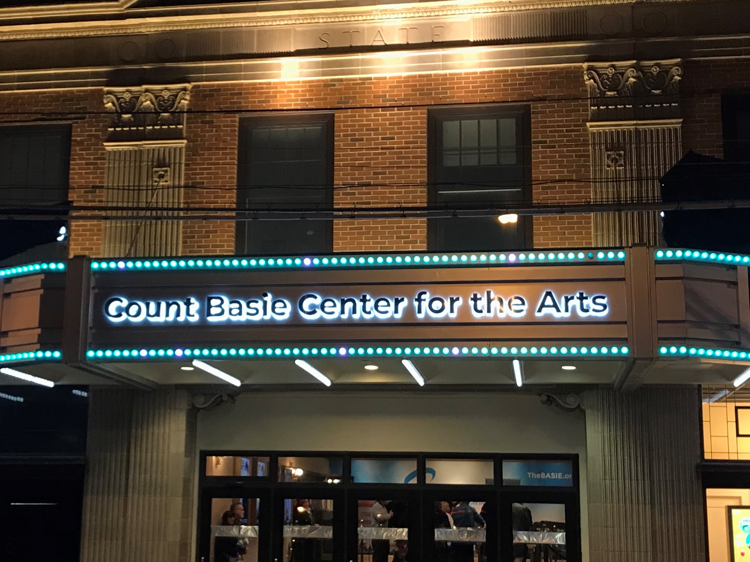 A photo of the iconic marquee at the Count Basie Center for the Arts